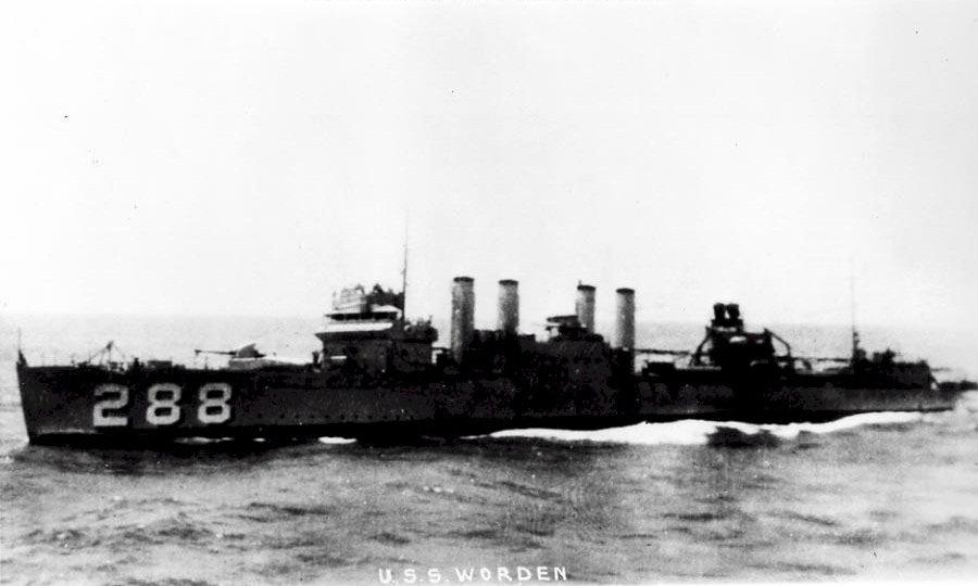 USS Worden (DD-288) underway at sea, circa the middle or later 1920s. Courtesy of Donald M. McPherson, 1969. U.S. Naval History and Heritage Command Photograph. Photo #: NH 67789.